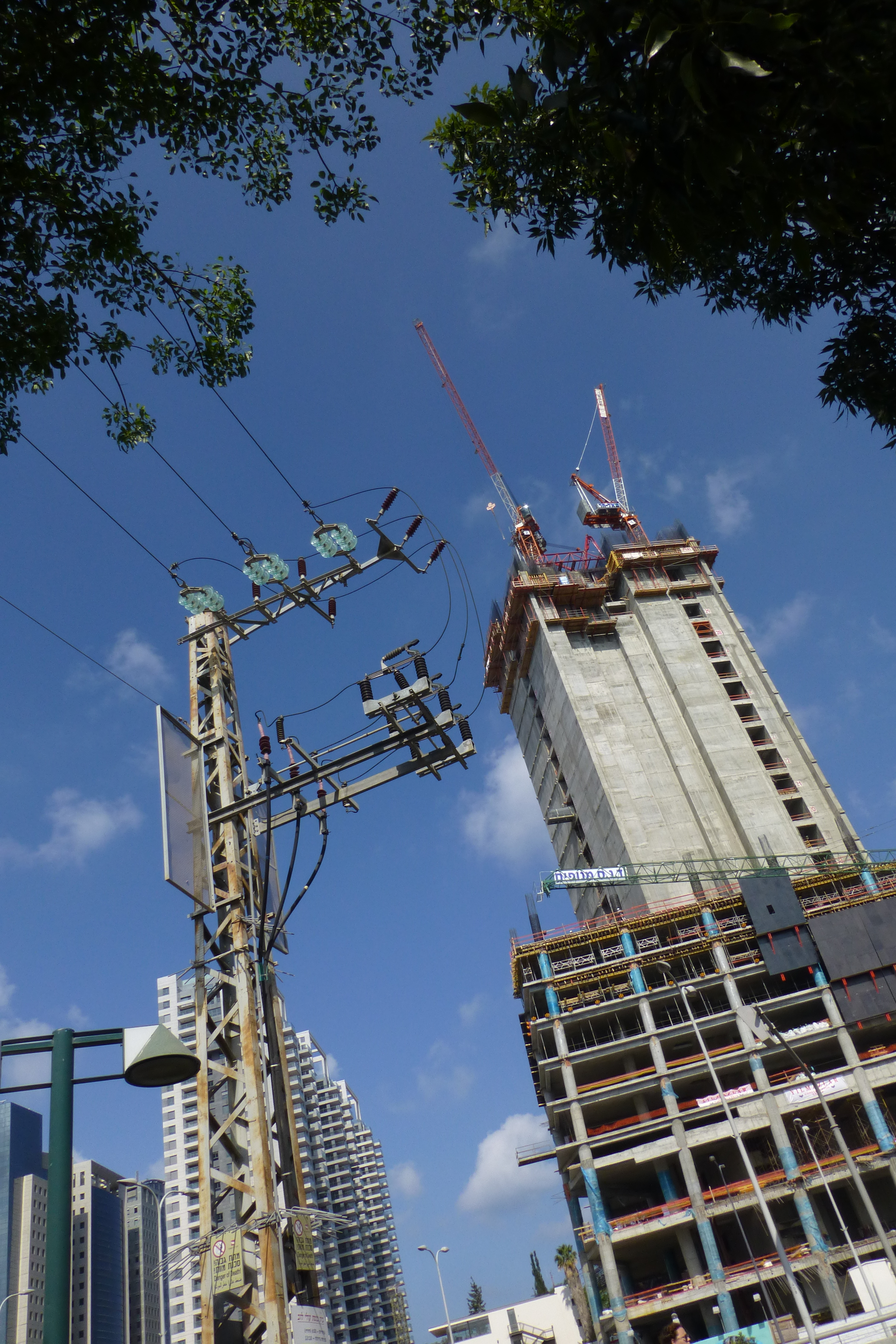 Tel Aviv-Yafo